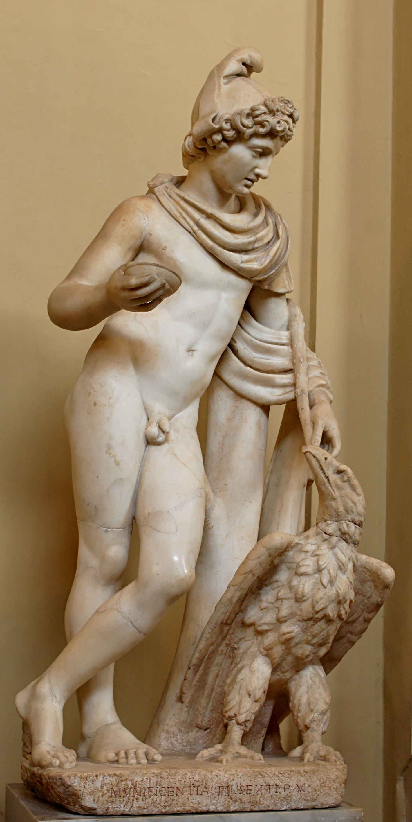 Ganymede wearing the Phrygian cap and Zeus transformed into an eagle. Marble, Roman artwork of the 2nd century AD after Greek models of the late 4th century BC and the early Hellenistic era, restored by Bartolomeo Cavaceppi. From the Quadraro Estate along the Via Tuscolana, 1870.